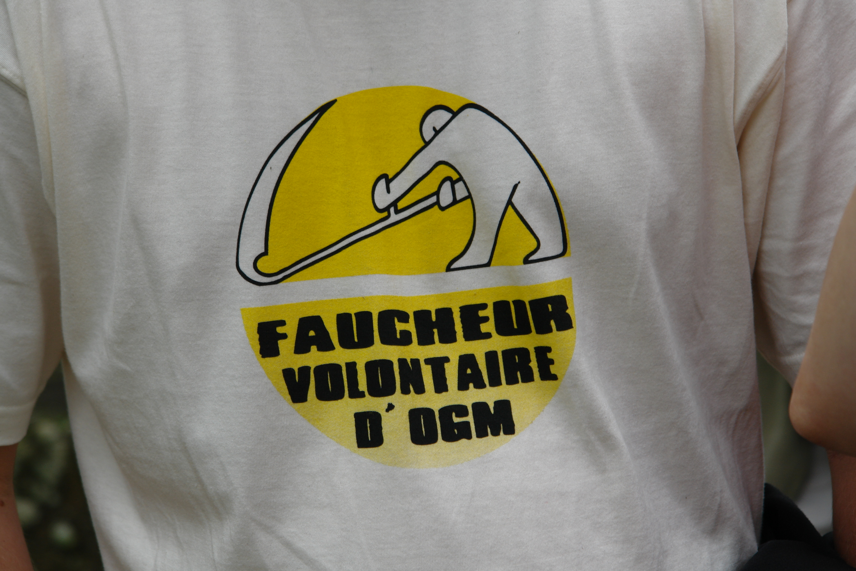 T-shirt against GMO food. The logo is not copyrighted.